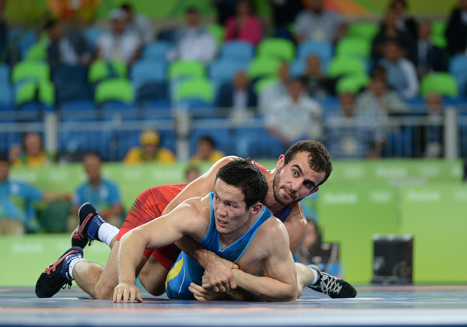 Wrestling at the 2016 Summer Olympics, Mursaliyev vs Kartikov